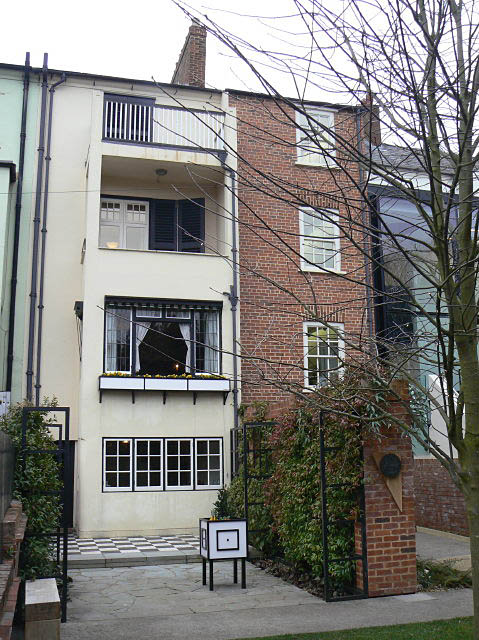 For more details of the house, Unlike the street facade, which was little changed, the rear of the house was subject to major reconstruction, with the back extended by some 5 feet to create space and light. Although subdued in terms of decoration, a careful study of inside and out allows one to appreciate the very modern concepts that Mackintosh brought to this makeover. Originally it would have looked similar to the house to the right; this now houses galleries relating to the work of the owner of 78, W.J.Bassett-Lowke.